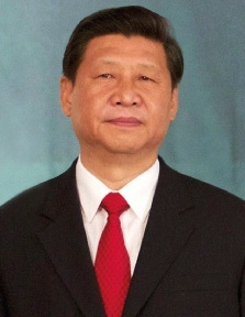 Xi Jinping, General Secretary of the Communist Party of China. National Palace, Mexico City.